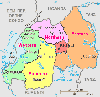 Map of Rwanda from CIA World Factbook, with province boundaries and names added.